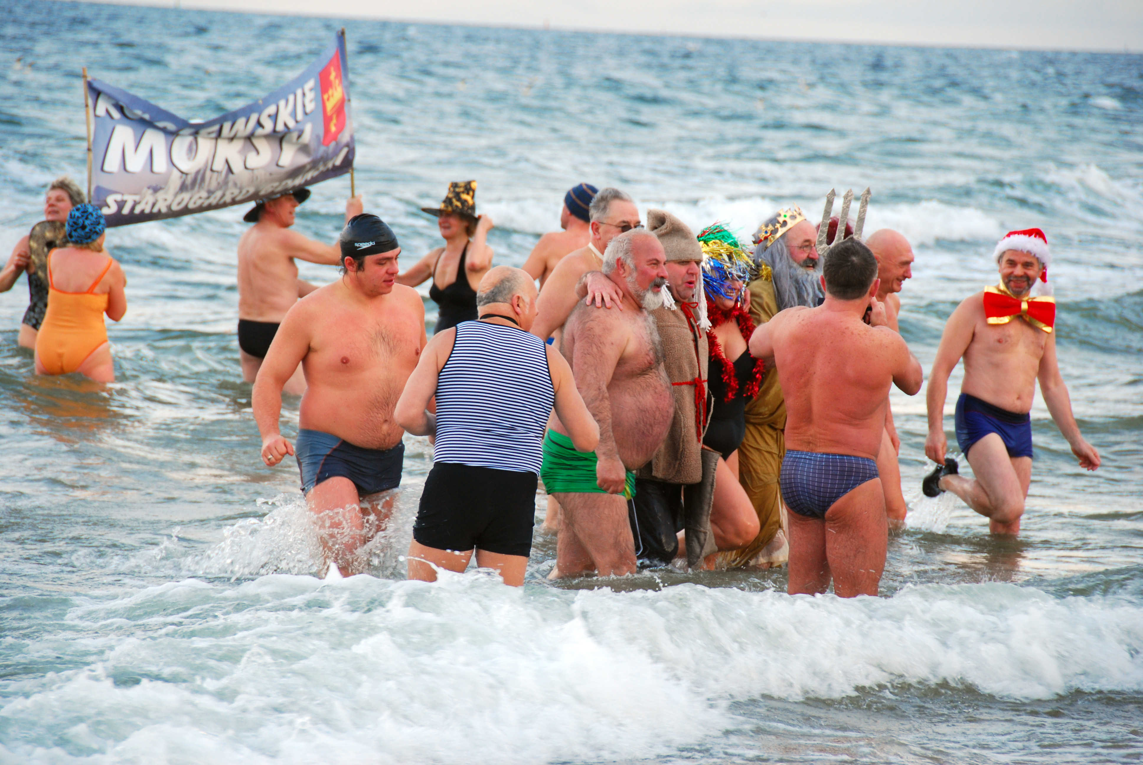 New Year 2009 Ice Swimmers in Gdańsk-Jelitkowo / The Loony Dookski